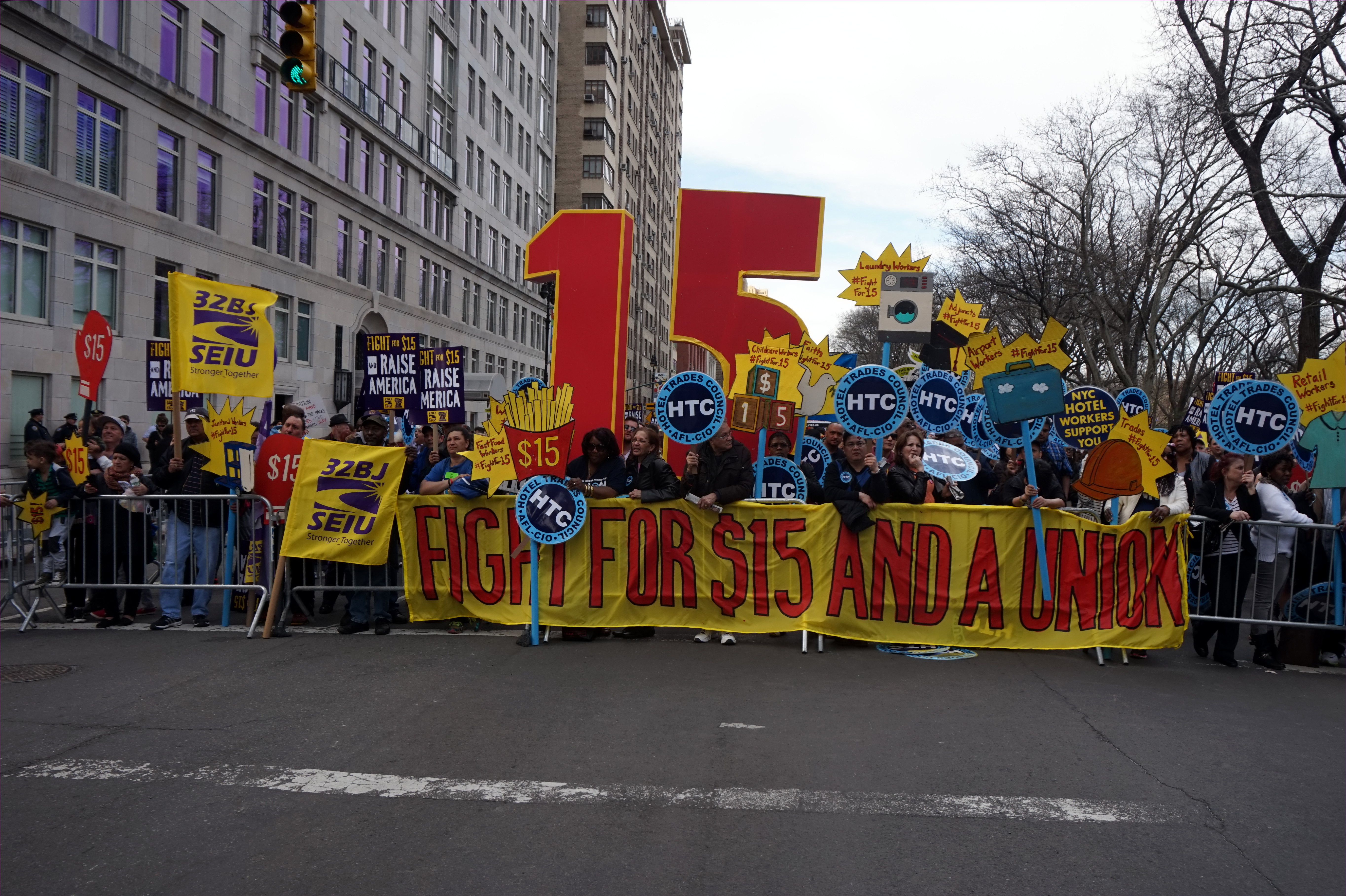 NYC Rally and March to raise the minimum wage in America.